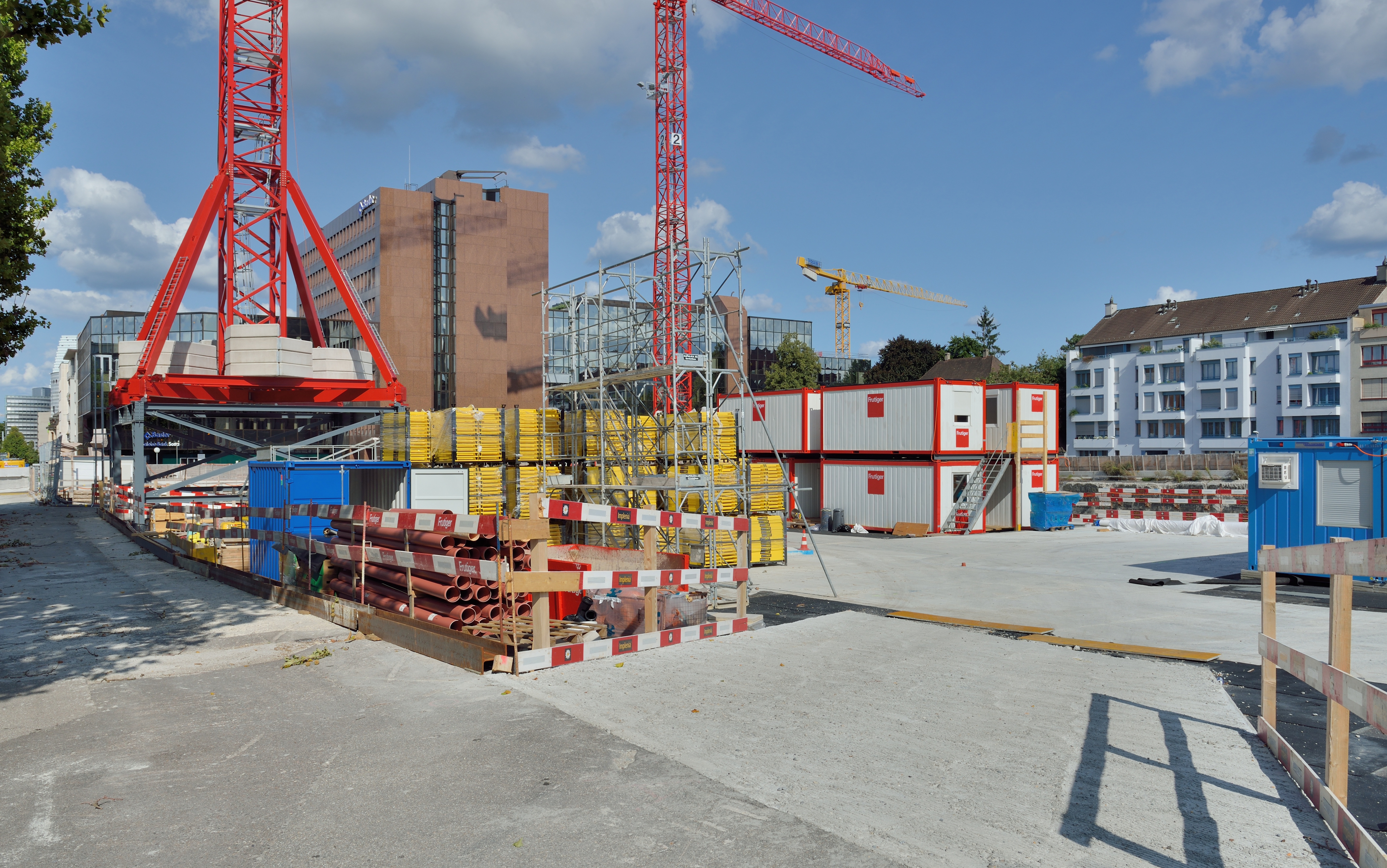 Basel: Baloise Tower, construction progress 2017